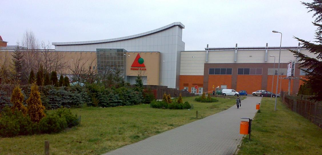 Poznan Plaza Shopping Center from Trojpole District.